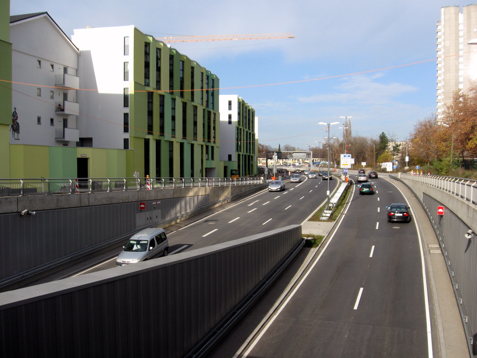 Richard-Strauss-Straße at the northern portal to the Richard-Strauss-Tunnel, Munich (Bavarian, Germany)